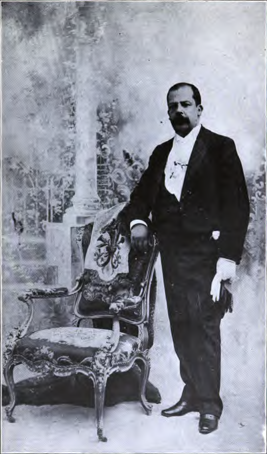 Manuel Estrada Cabrera, president of Guatemala from 8 February 1898 to 15 April 1920.